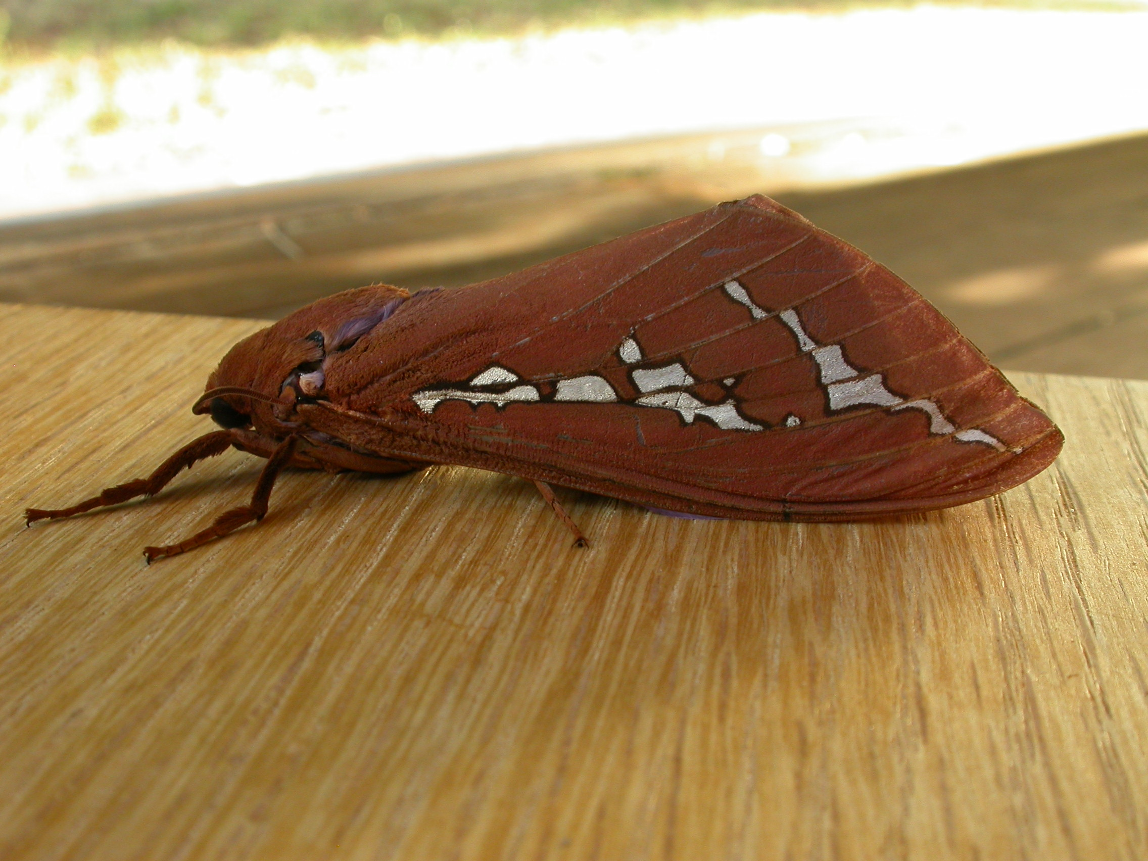 Abantiades hyalinatus (Herrich-Schäffer, [1853]), to MV light, Blackheath, NSW, 15/16 January 2009